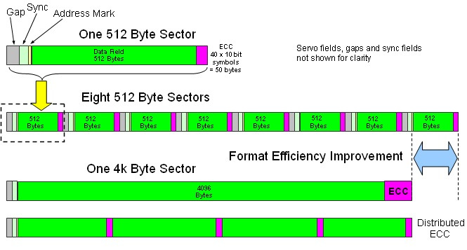 Advanced Format Diagram Figure #2